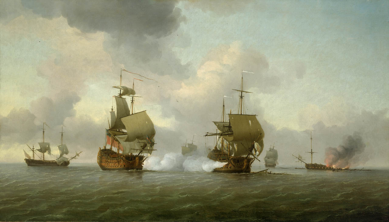 The Spanish 74-gun ship 'Glorioso' was on her way to Cadiz from Ferrol, where she had landed treasure, when she was attacked by a number of English ships, including the 'Royal family' squadron of privateers commanded by Commodore Walker. She was engaged by several ships of inferior force including Walker's privateer the 'King George', 32 guns, which kept up a close but unequal struggle for several hours, and the 'Dartmouth', 50 guns, which blew up. After a five-hour battle, the 'Glorioso' was finally captured by the 'Russell', 80 guns, which was returning half-manned from the Mediterranean. The last shots of the action are shown with the 'Russell' and 'Glorioso' in the centre of the picture, both running in starboard-bow view. In a calm sea, the 'Glorioso', right, has lost her topmast, her ensign is being struck and there is a sailor on her bowsprit taking down the jack. To the left, the 'King George', in starboard-broadside view, is hove-to, with her sails in ribbons, her mizzen topmast gone and her foreyard shot in two. The topsails of the 'Prince Frederick' can be seen between the 'Russell' and 'Glorioso' over the gun-smoke. To their right in the background is a third privateer and to the right, port-broadside view, is the sinking, burning wreck of the 'Dartmouth', her foremast still standing. Only fourteen of her crew survived.